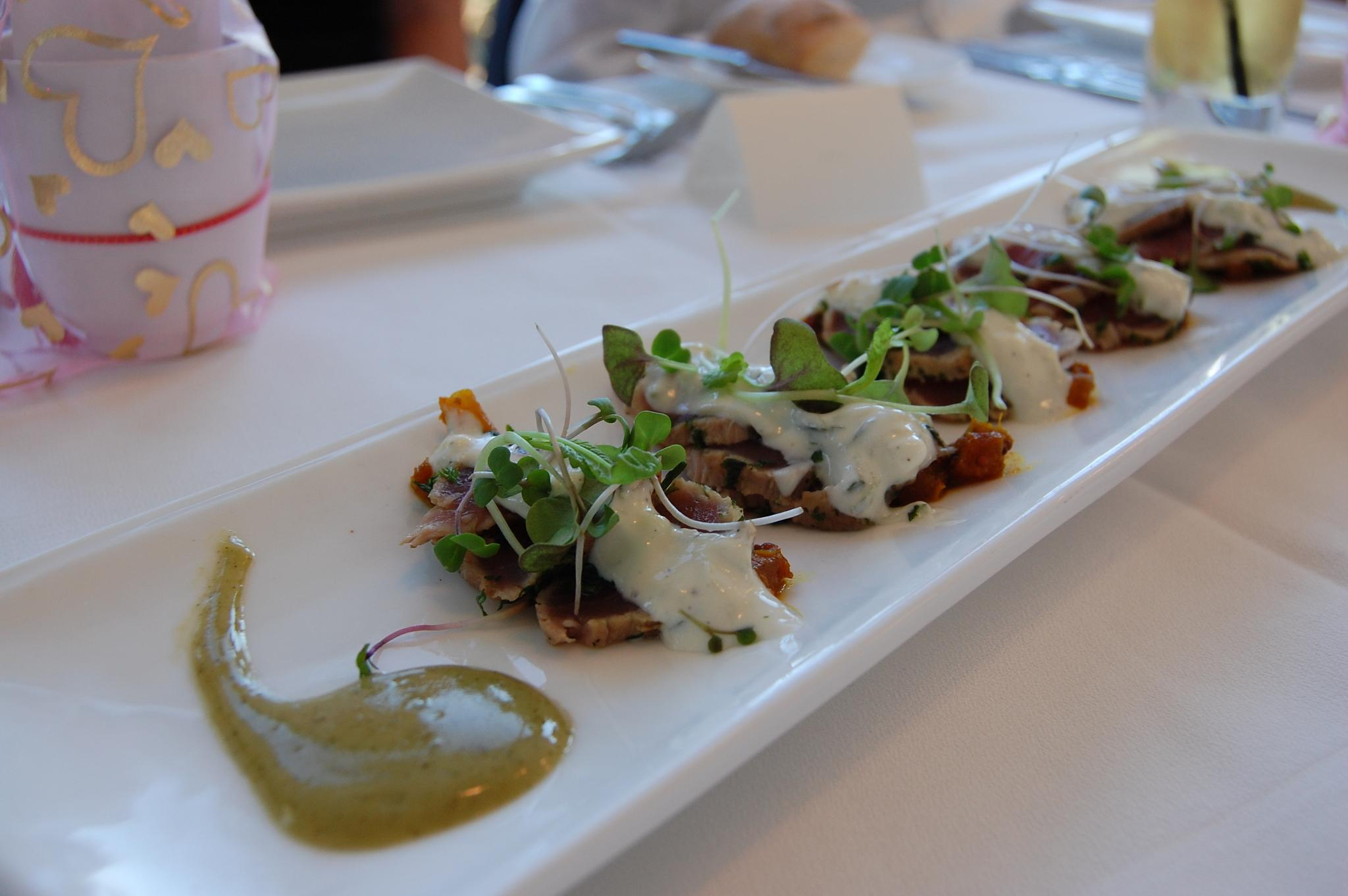 Sails On The Bay Restaurant (03) 9525 6933 15 Elwood Foreshore Elwood VIC 3184